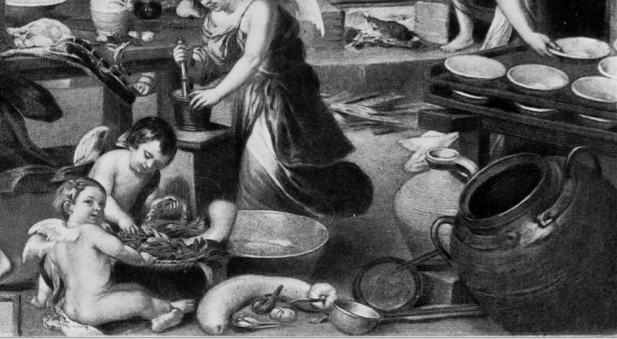 Detail of Murillo, Angels' Kitchen, from the photograph by C. C. Pierce in the California Historical Society collection at University of Southern California Libraries